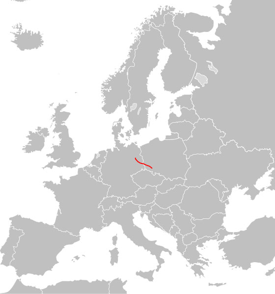 The European route 36